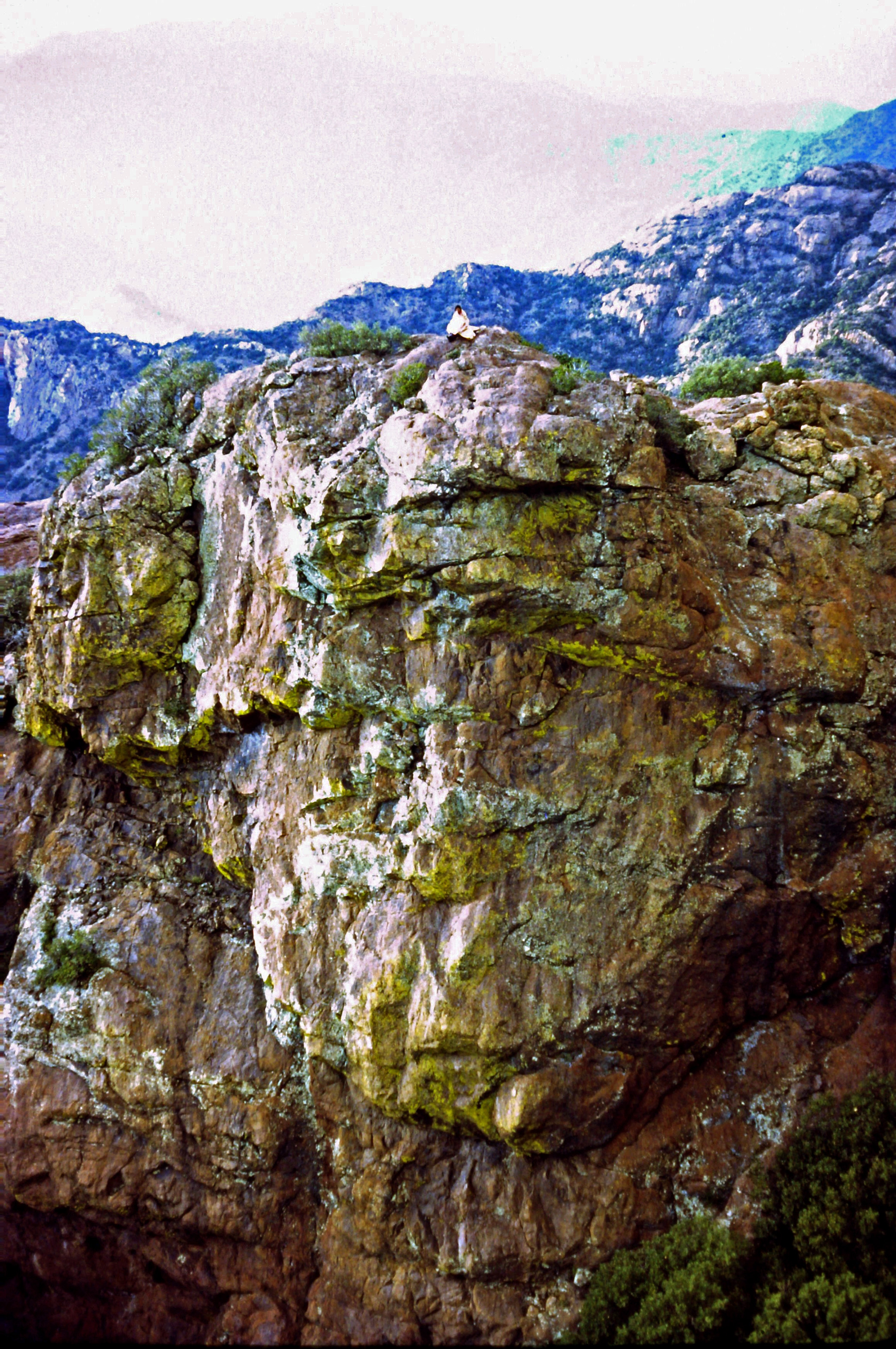 View from trail near bottom of the "Ladder Route" to Baboquivari Peak. In the distance, obscured, is Kitt Peak Observatory. Photographed this seeming native observing us prior to our final climb to the summit.